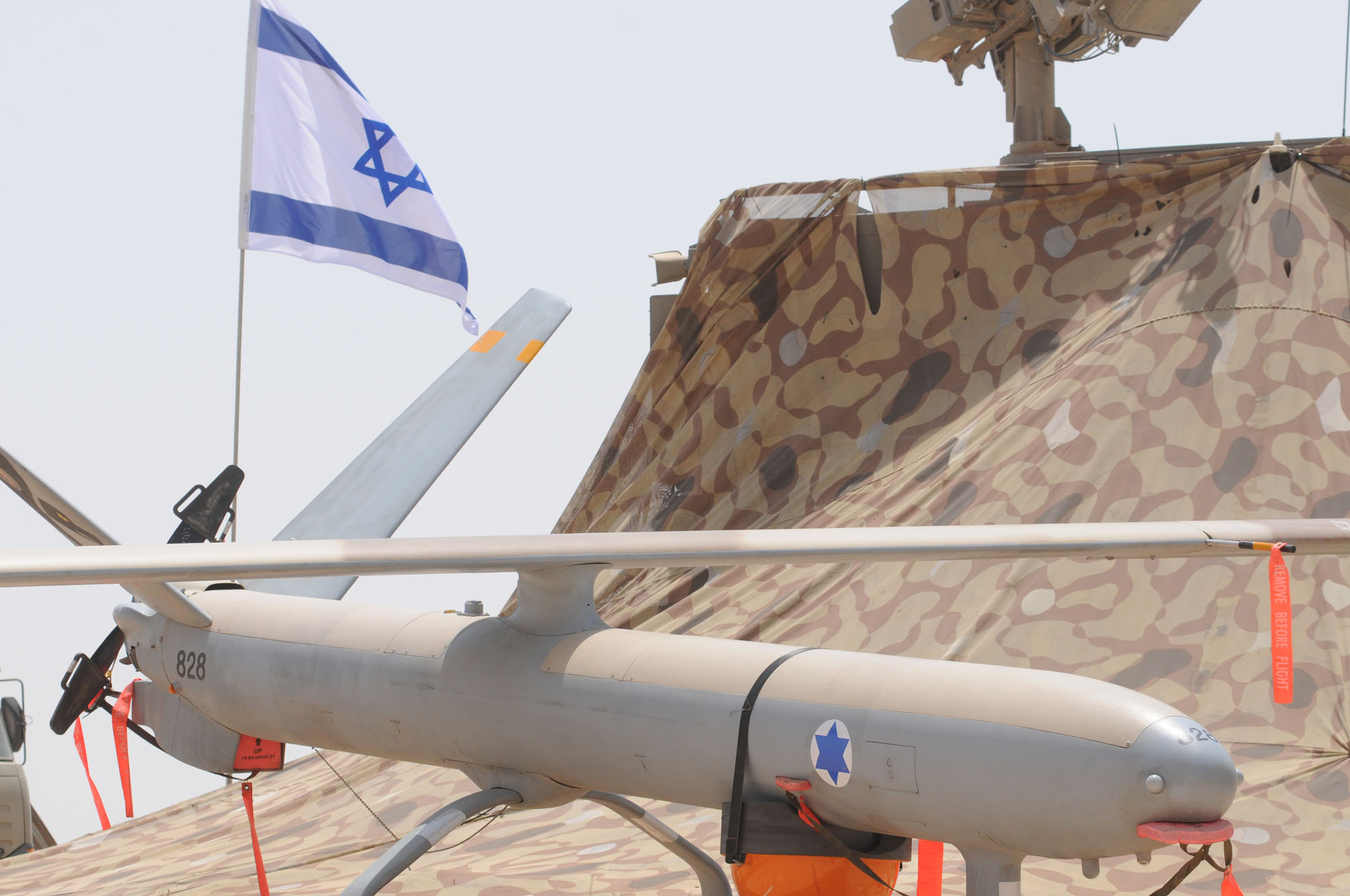 The Israel Defense Forces Facebook • blog • Twitter